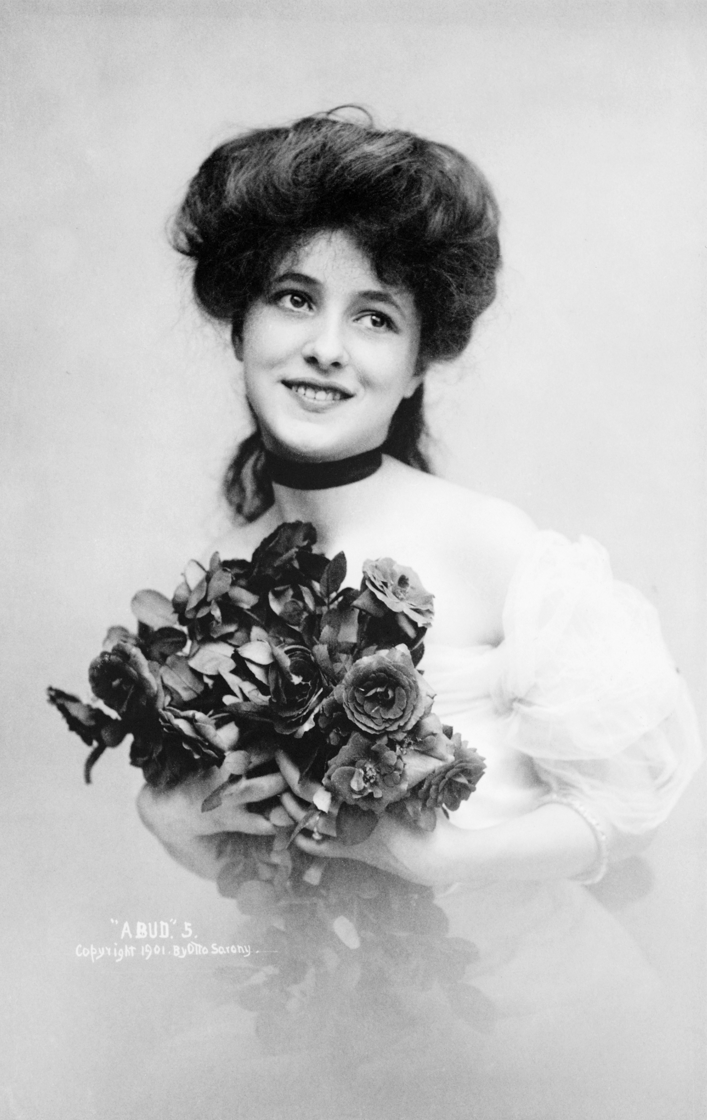 Evelyn Nesbit, half-length portrait, facing front, holding bouquet of roses